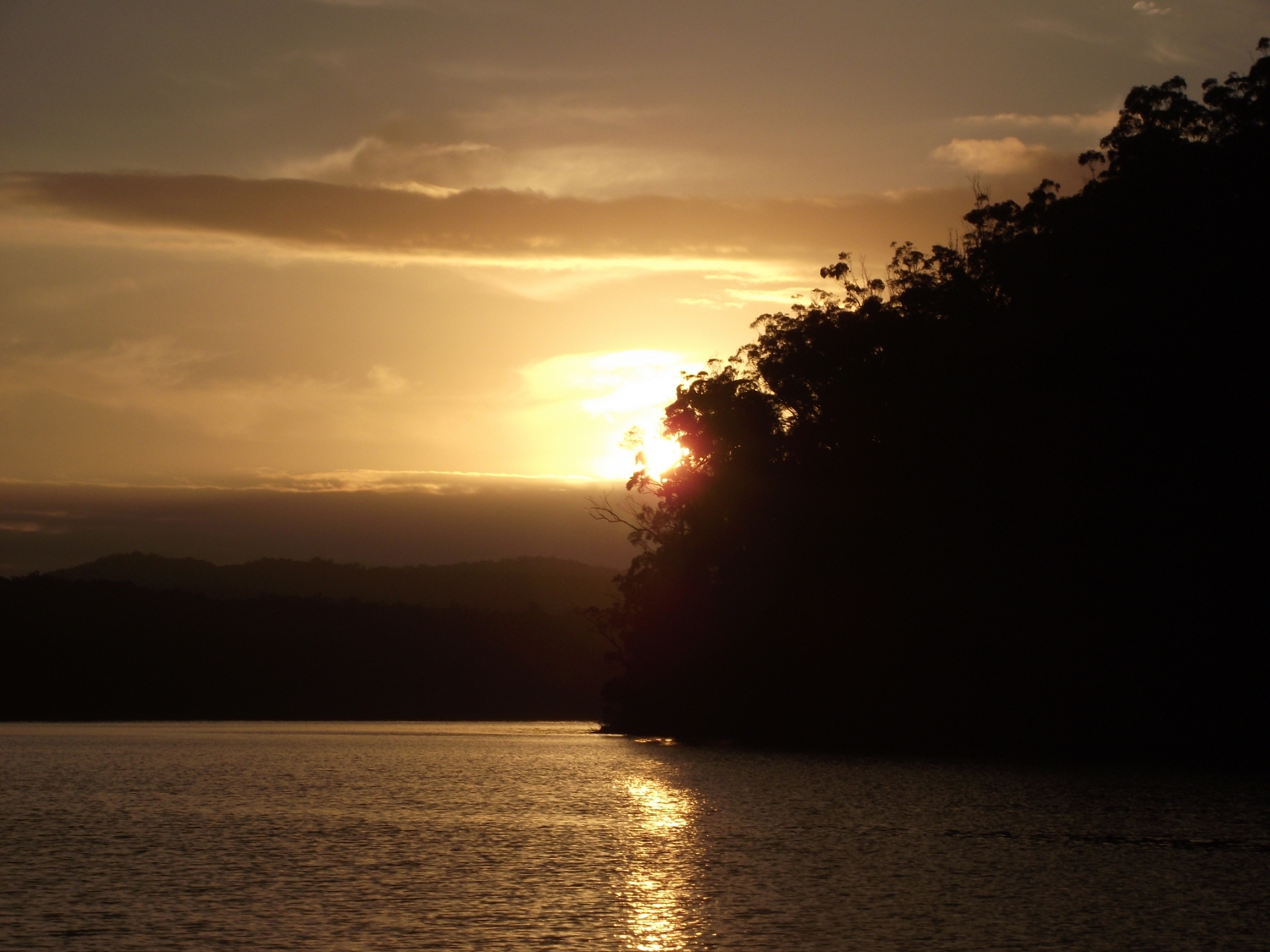 Mallacoota Top Lake, 2011